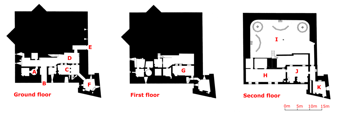 Diagram of Yarmouth Castle; cleaned up, coloured and labelled by hchc2009